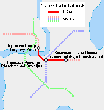 Map of the Chelyabinsk Metro, German transcription and labeling